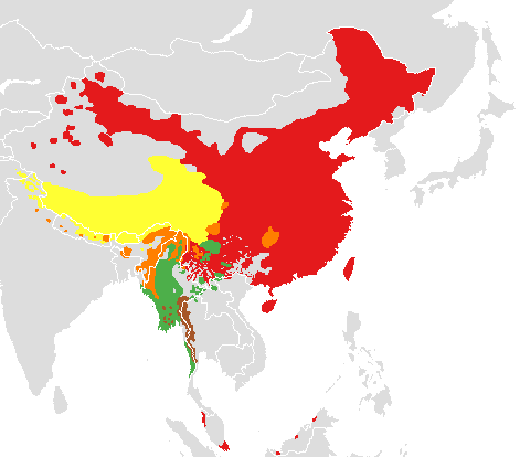 Major subgroups of the Sino-Tibetan language family: Sinitic Tibetic Lolo-Burmese Karen other